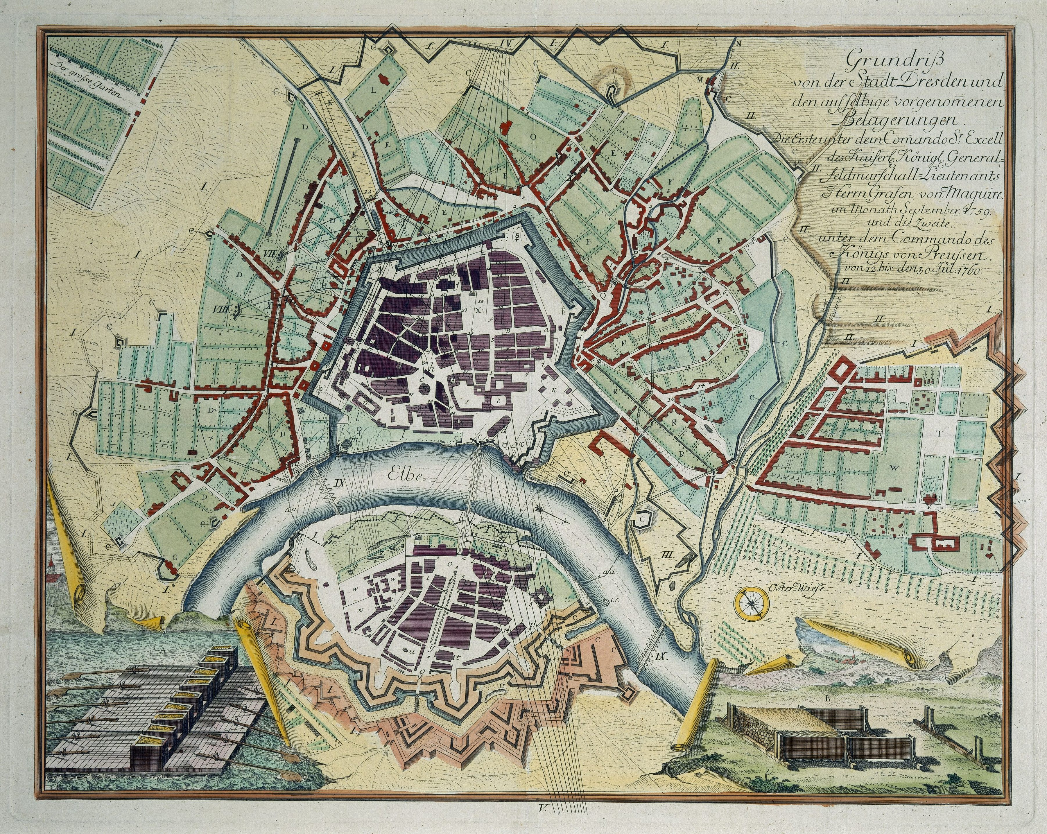 Map of Dresden